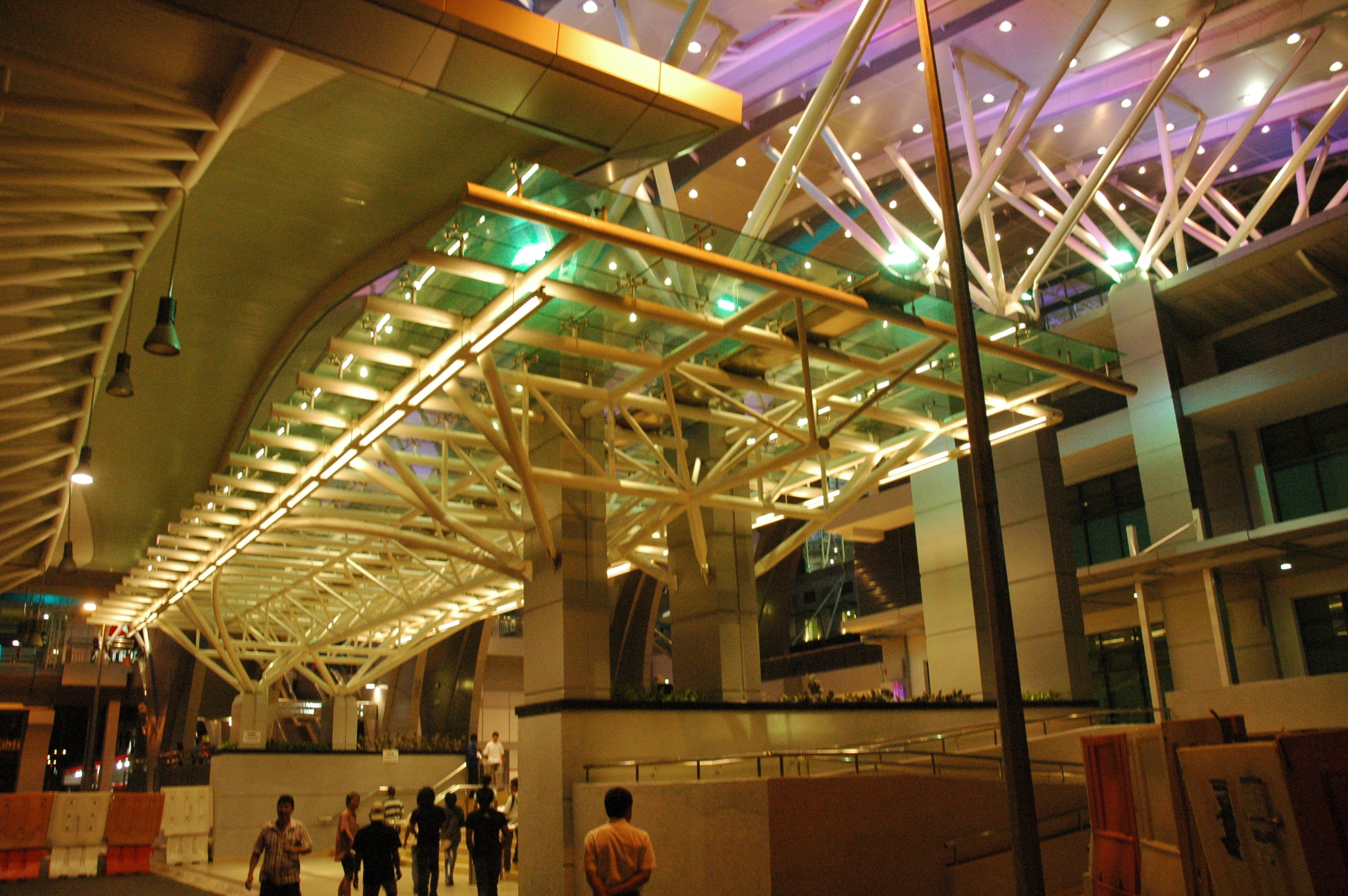 JB Sentral (railway station), Johor Bahru, Malaysia. Taken on February 8, 2009, after the opening of the adjacent CIQ but before train operations started.